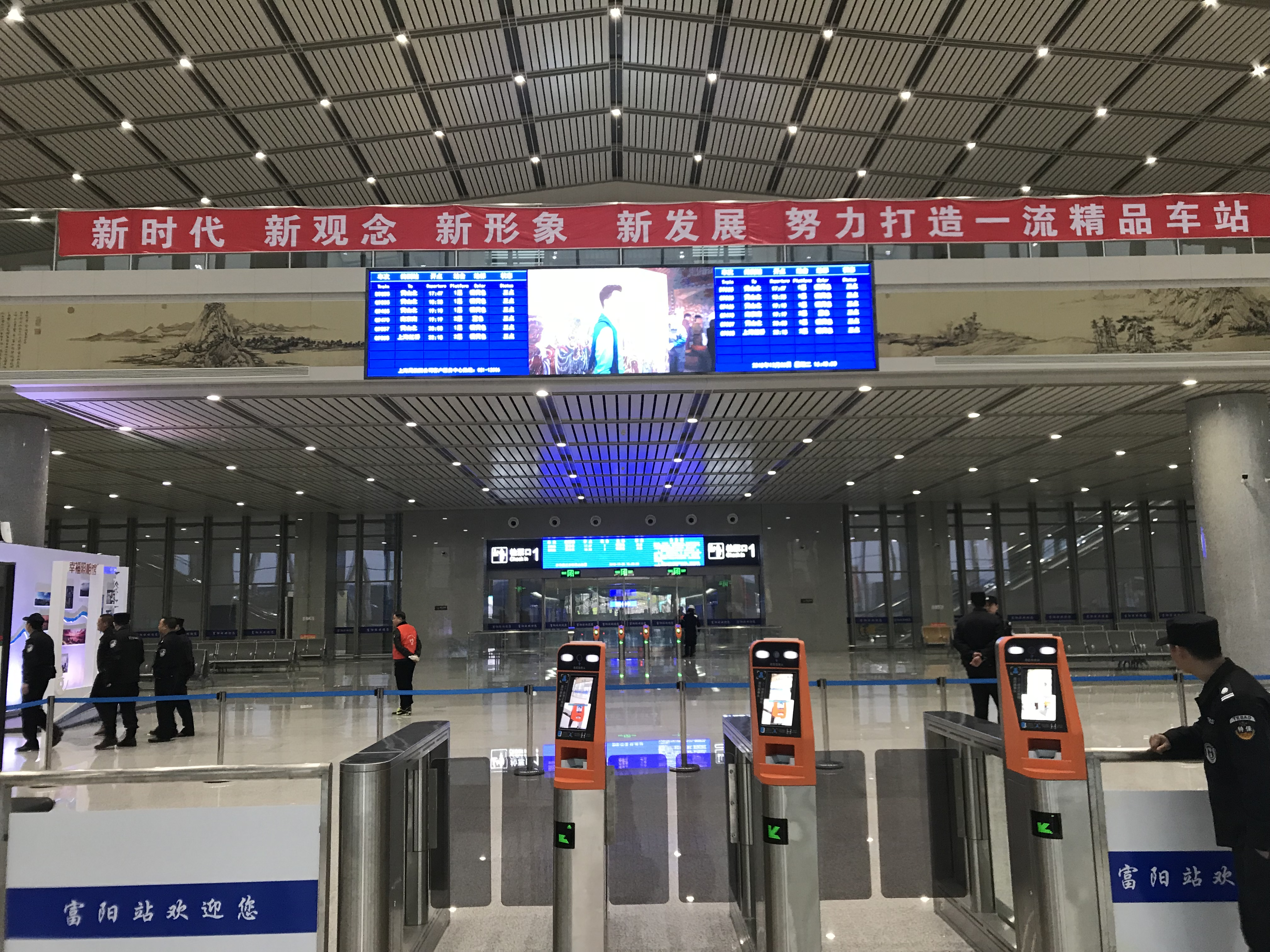 201812 Entrance of Fuyang Station, with Fuchunshanjutu Mural and FaceID inspection machines.